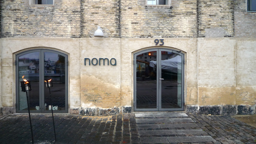 noma Restaurant in Copenhagen - Main Entrance